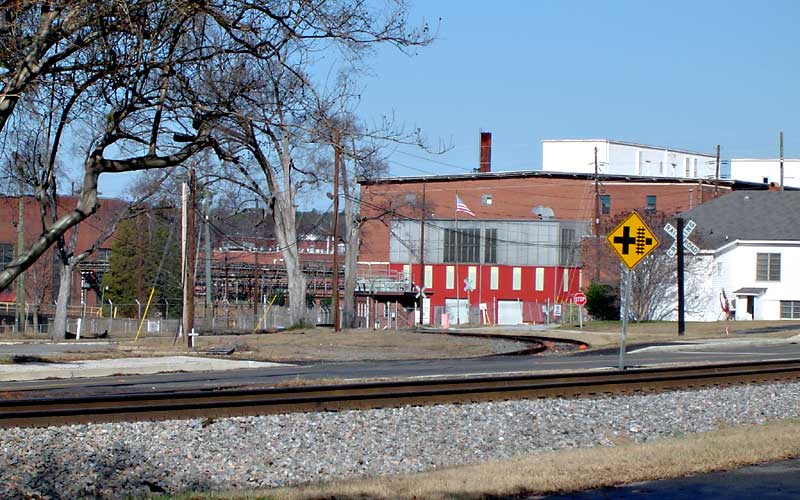 Location of Graniteville Train Derailment, 6 January 2005. Northbound train on main line from left to right was diverted by misaligned switch into a parked locomotive on the turnout into the mill. Nine men died in the consequent chlorine spill. Graniteville South Carolina. Photograph 2007 by P J Hughes